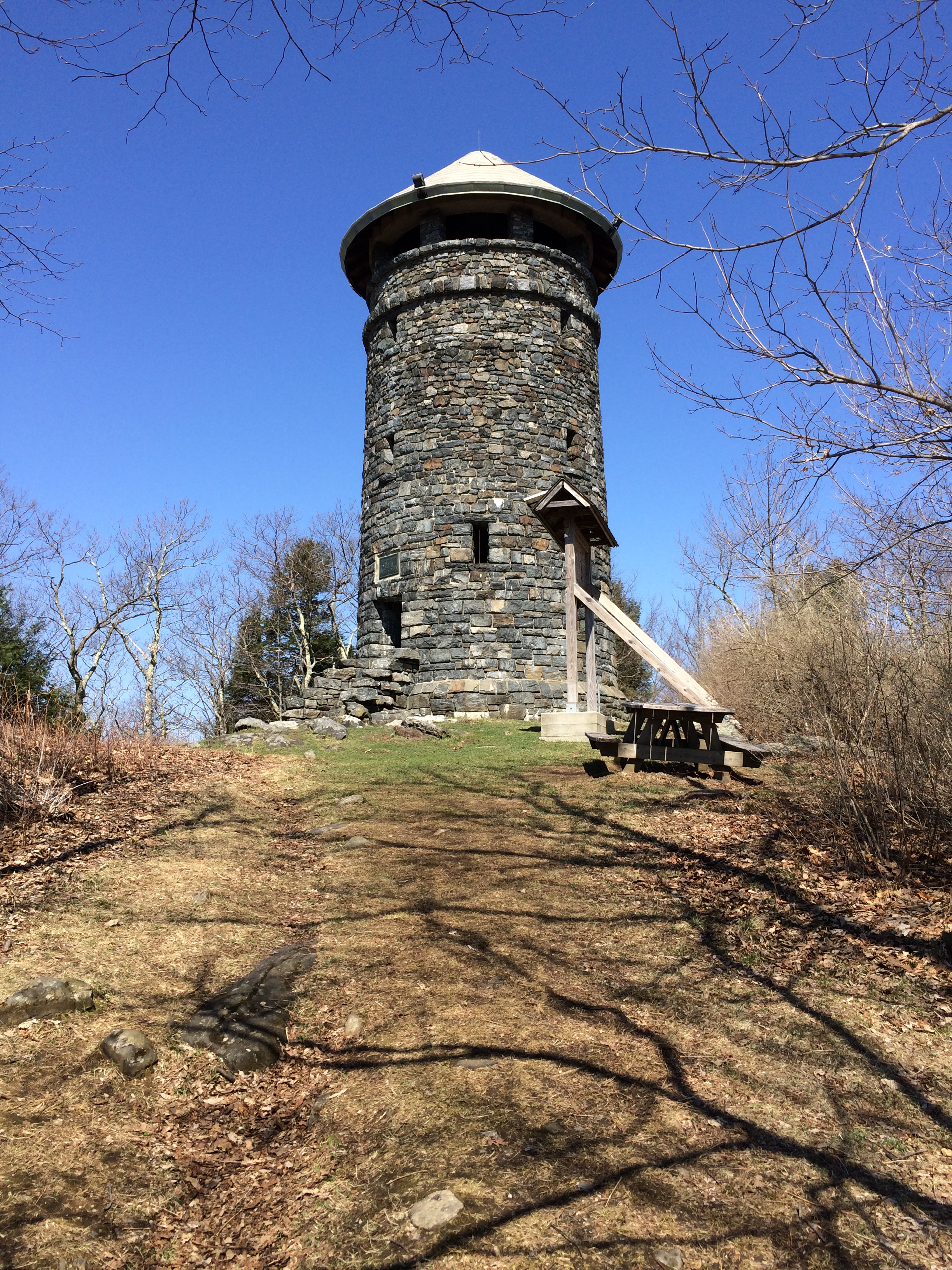 Haystack Mountain State Park stone observation tower.